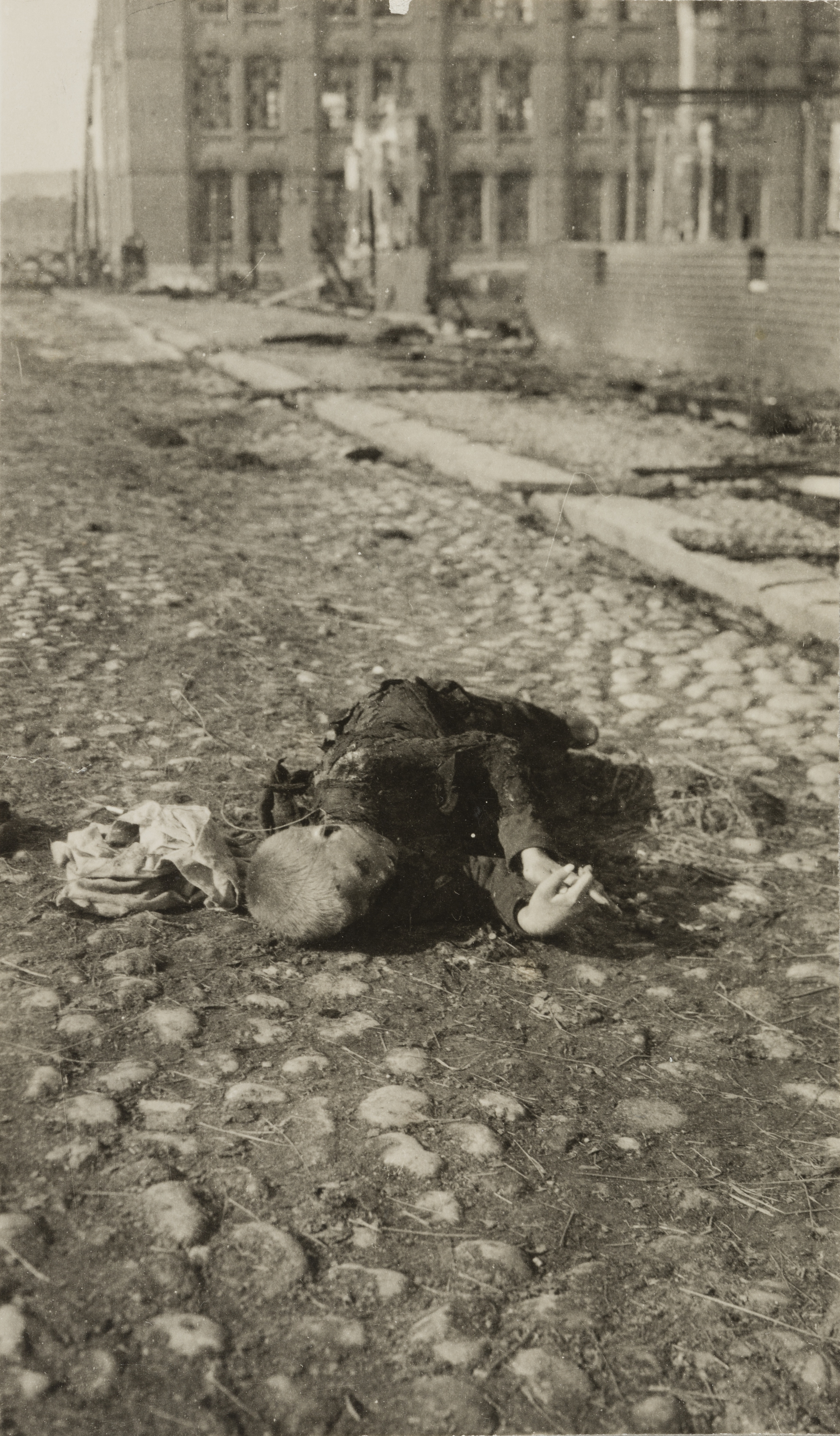 A boy killed in the Battle of Tampere in 1918